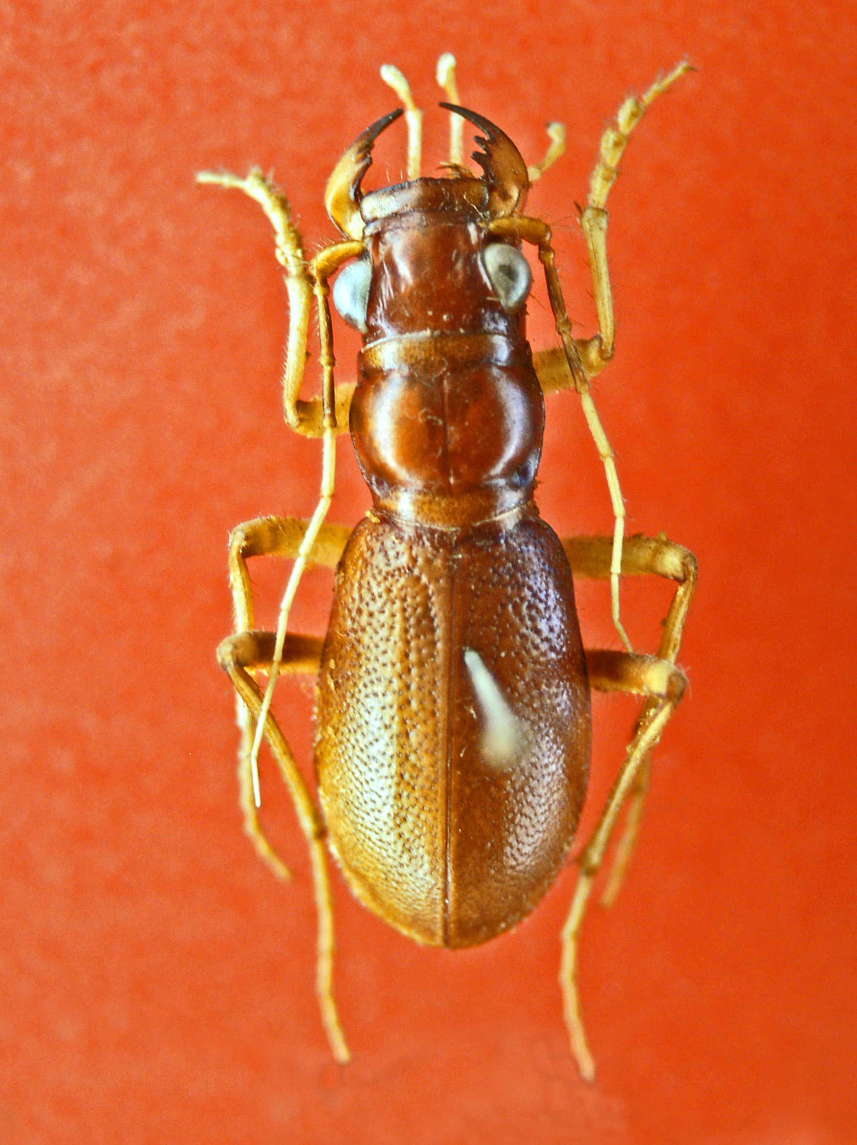 Megacephala megacephala. Museum specimen on display at the Civico Museo di Storia Naturale di Trieste